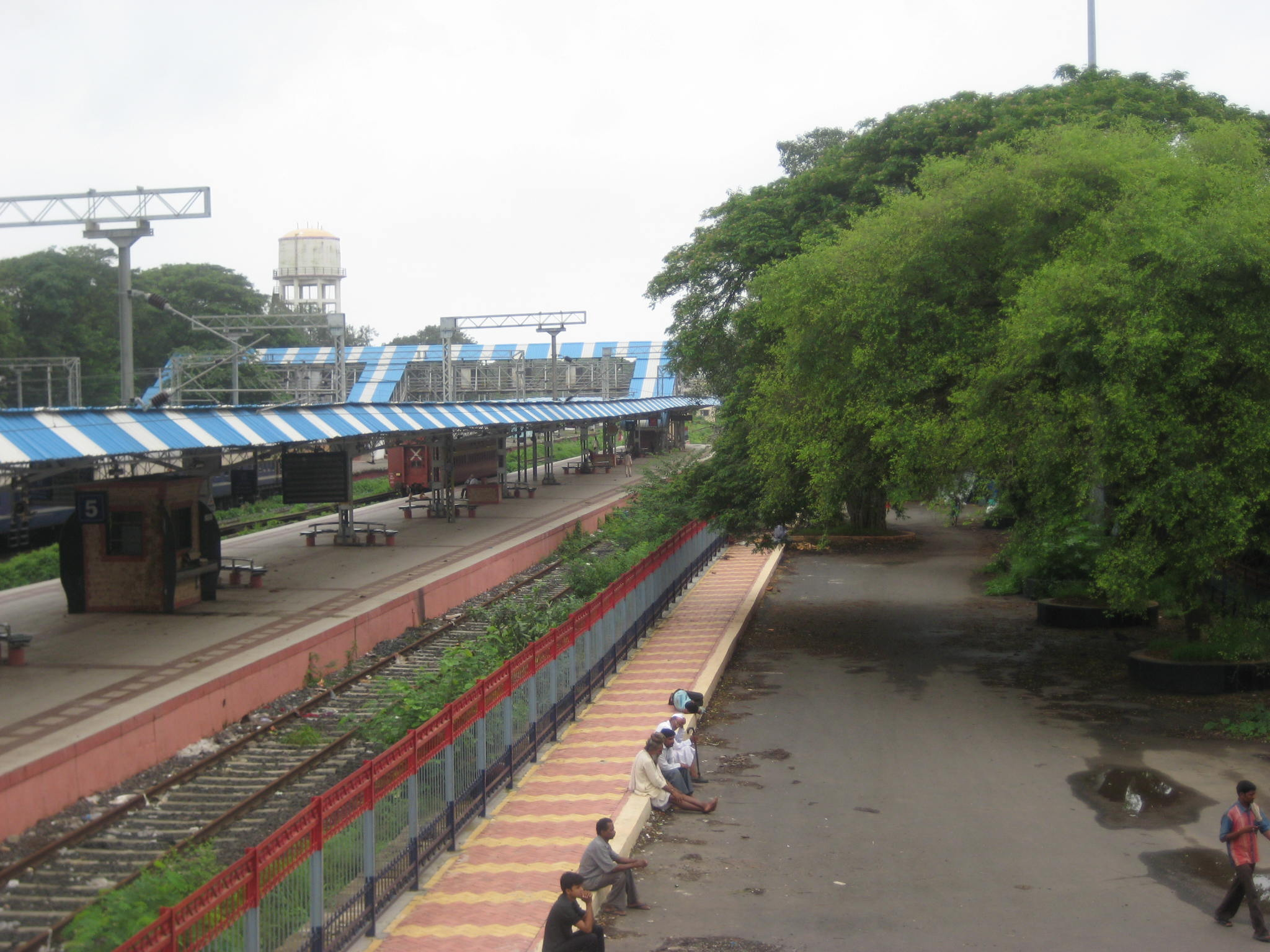 Dahanu Road Rly Station Yard, East